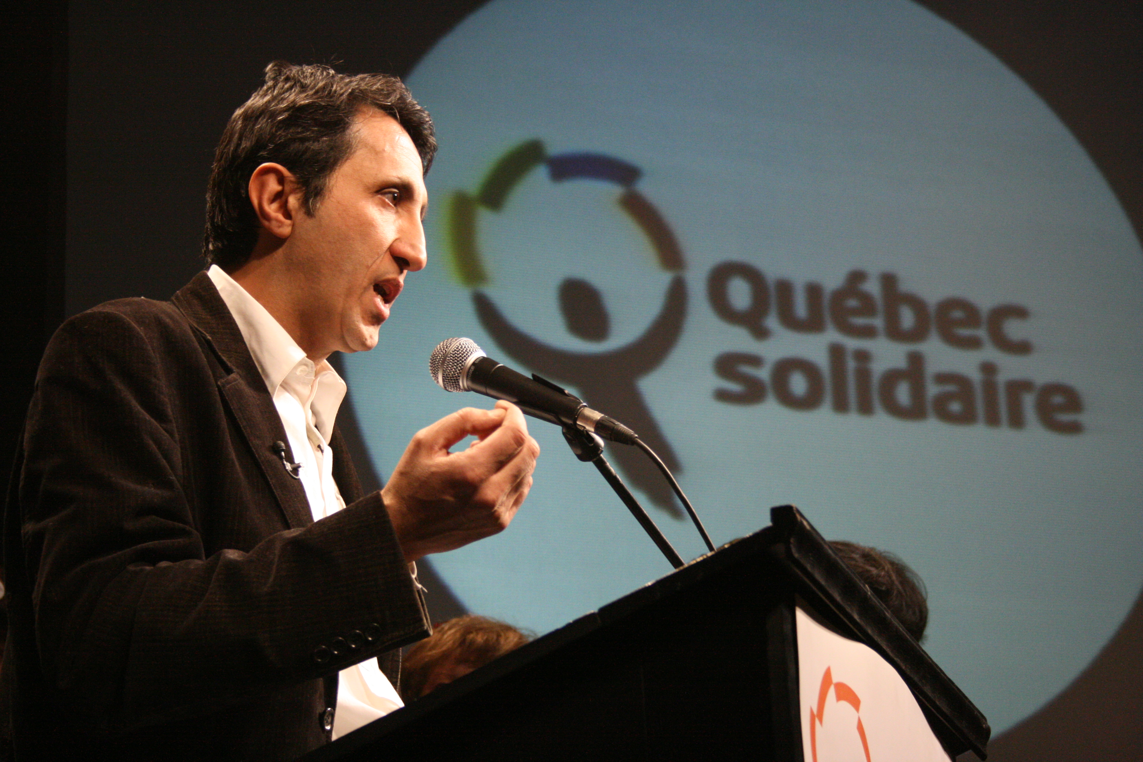 Amir Kadir victory speech